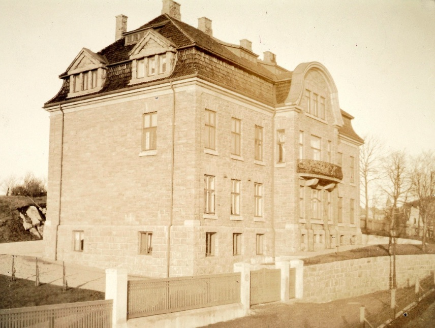 The Rønneberg Villa in Ålesund (demolished 1973)